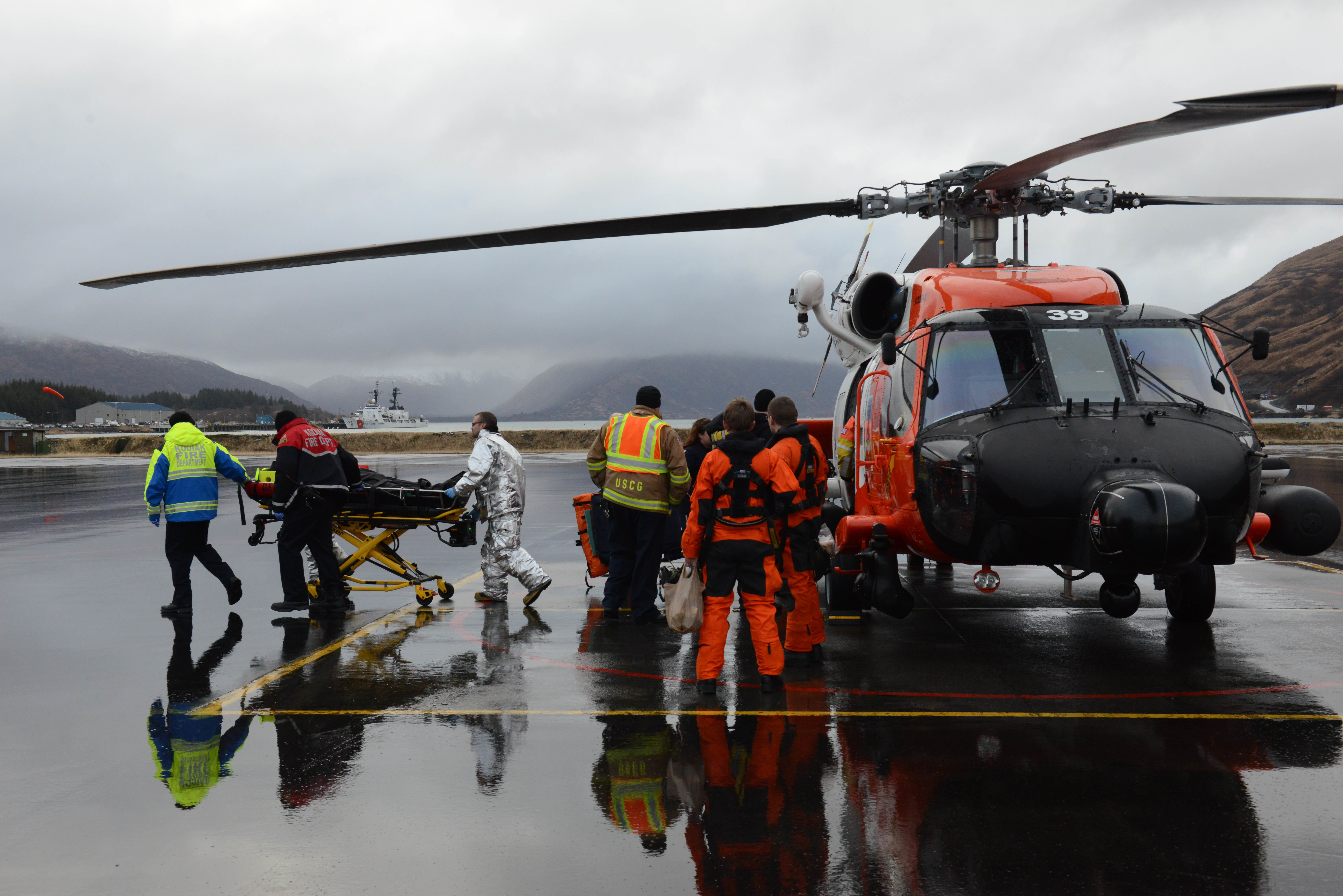 An injured crewmember from the 728-foot cargo ship Cemtex Venture is transferred to awaiting emergency medical services personnel at Air Station Kodiak, Alaska, Feb. 9, 2016. An Air Station Kodiak MH-60 Jayhawk helicopter and HC-130 Hercules aircrews flew approximately 220 miles southeast of Kodiak to conduct the hoists. (U.S. Coast Guard photo by Petty Officer 1st Class Kelly Parker) Unit: U.S. Coast Guard District 17